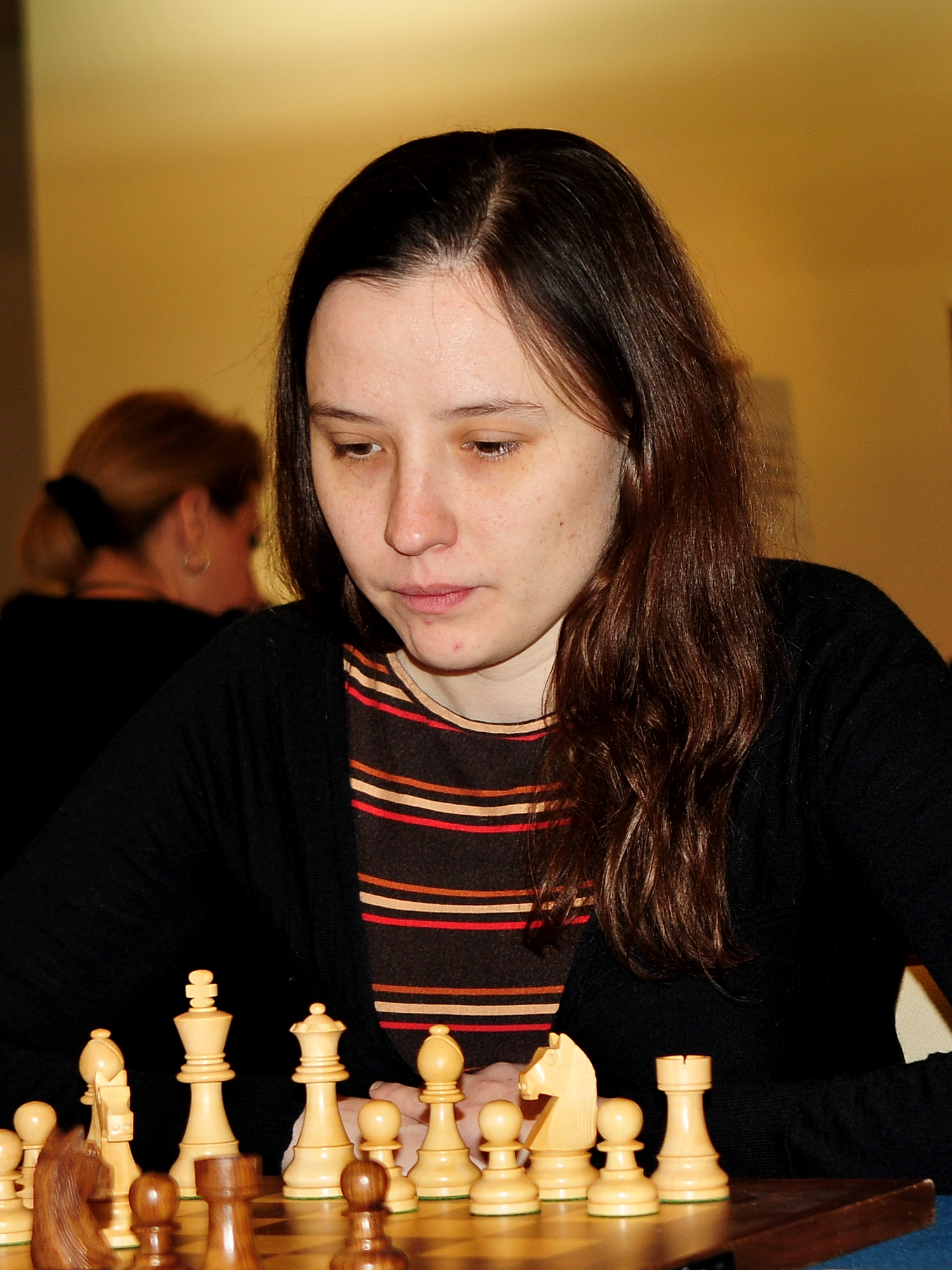 WGM Jolanta Zawadzka, European Chess Team Championship Warsaw 2013